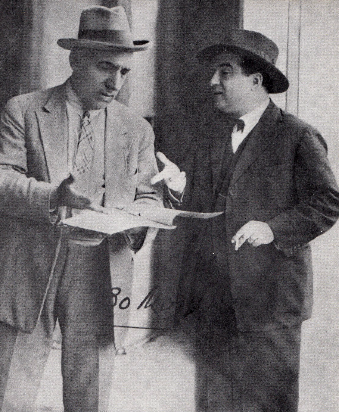 Romanian actor Constantin Tănase (left) with writer A. De Herz.